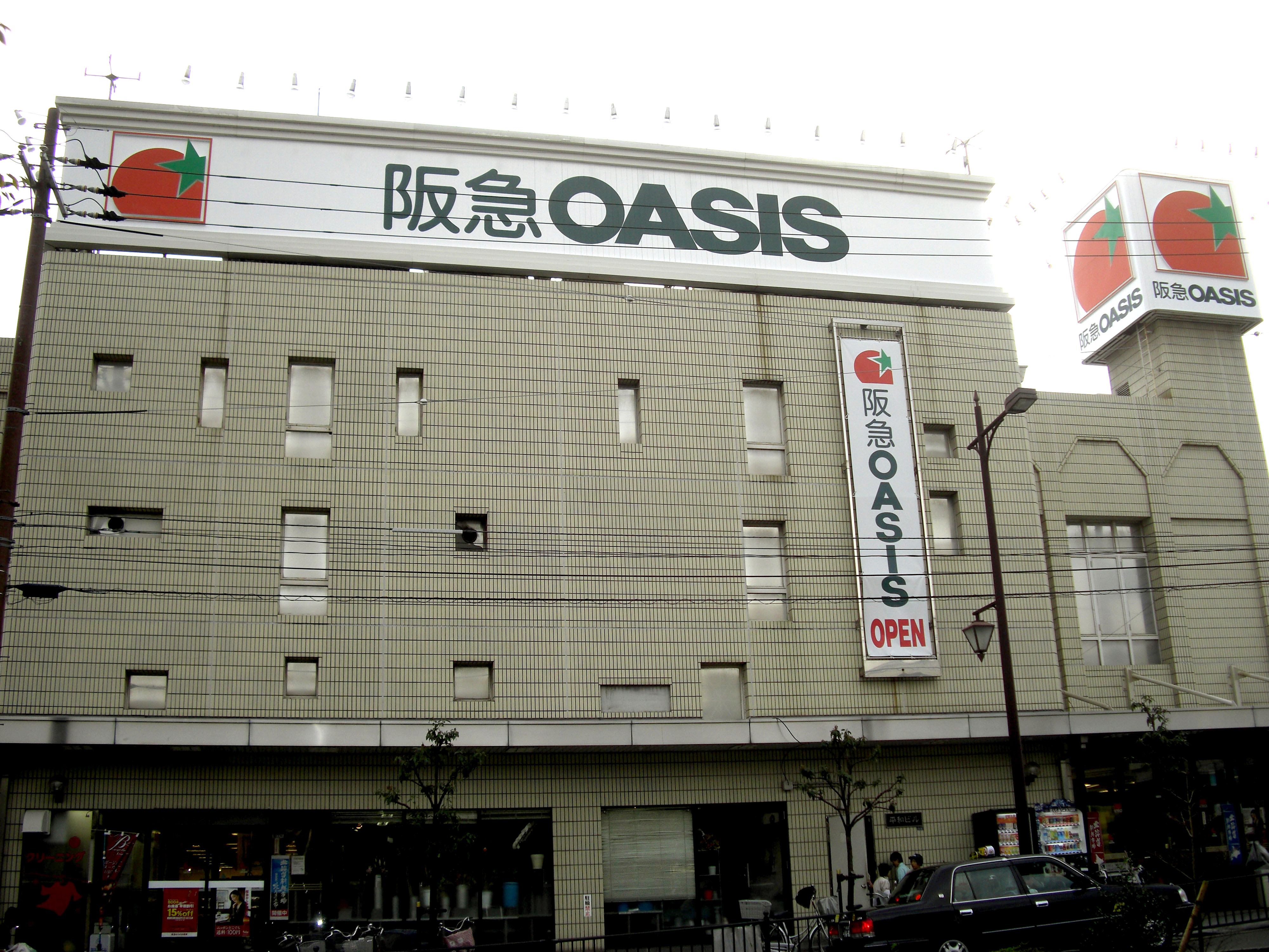 Hankyu OASIS Ibaraki-Ekimae,Nishichujocho Ibaraki-City Osaka Japan.